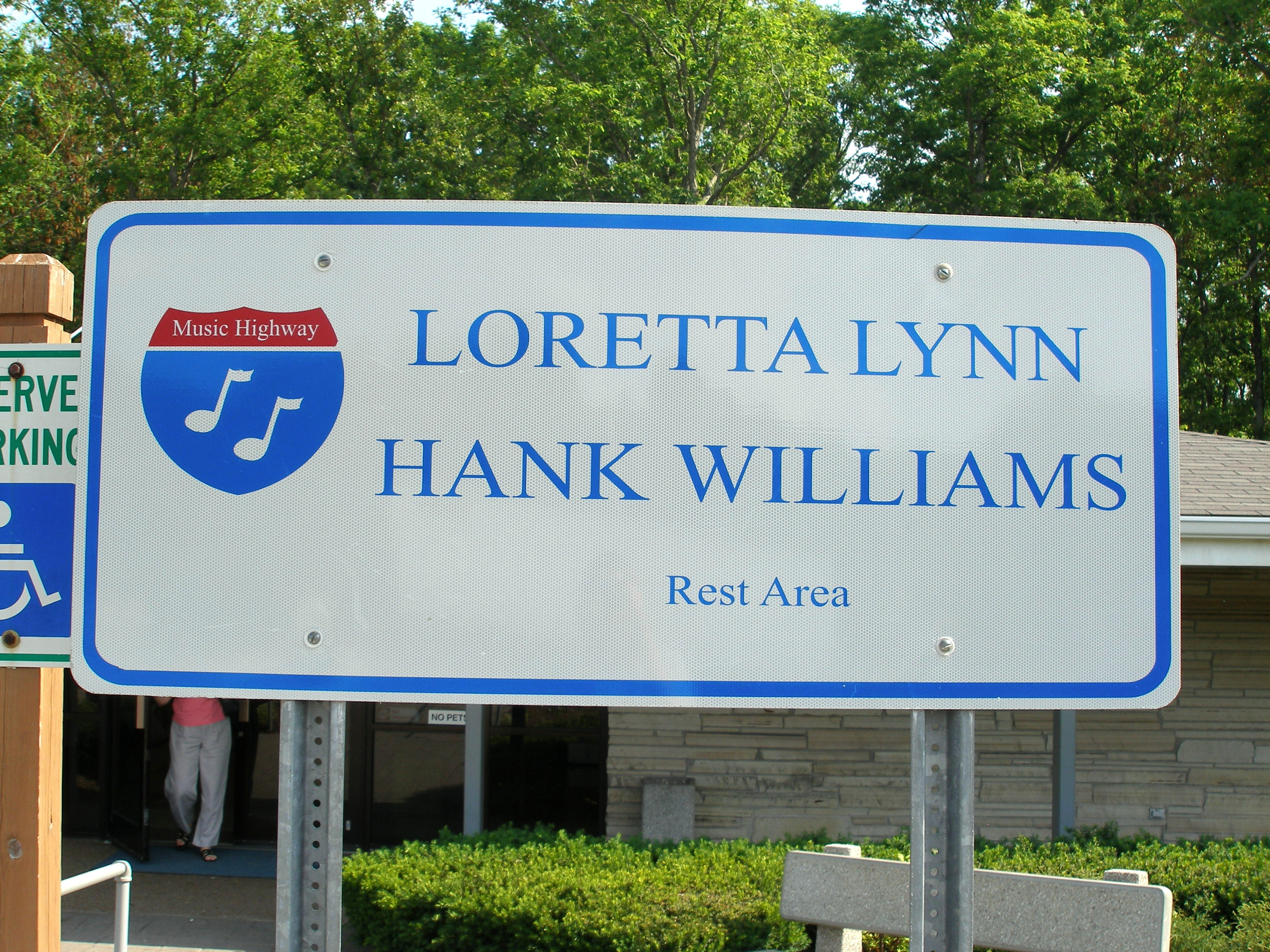 Two talented musicians with a rest area named after them.